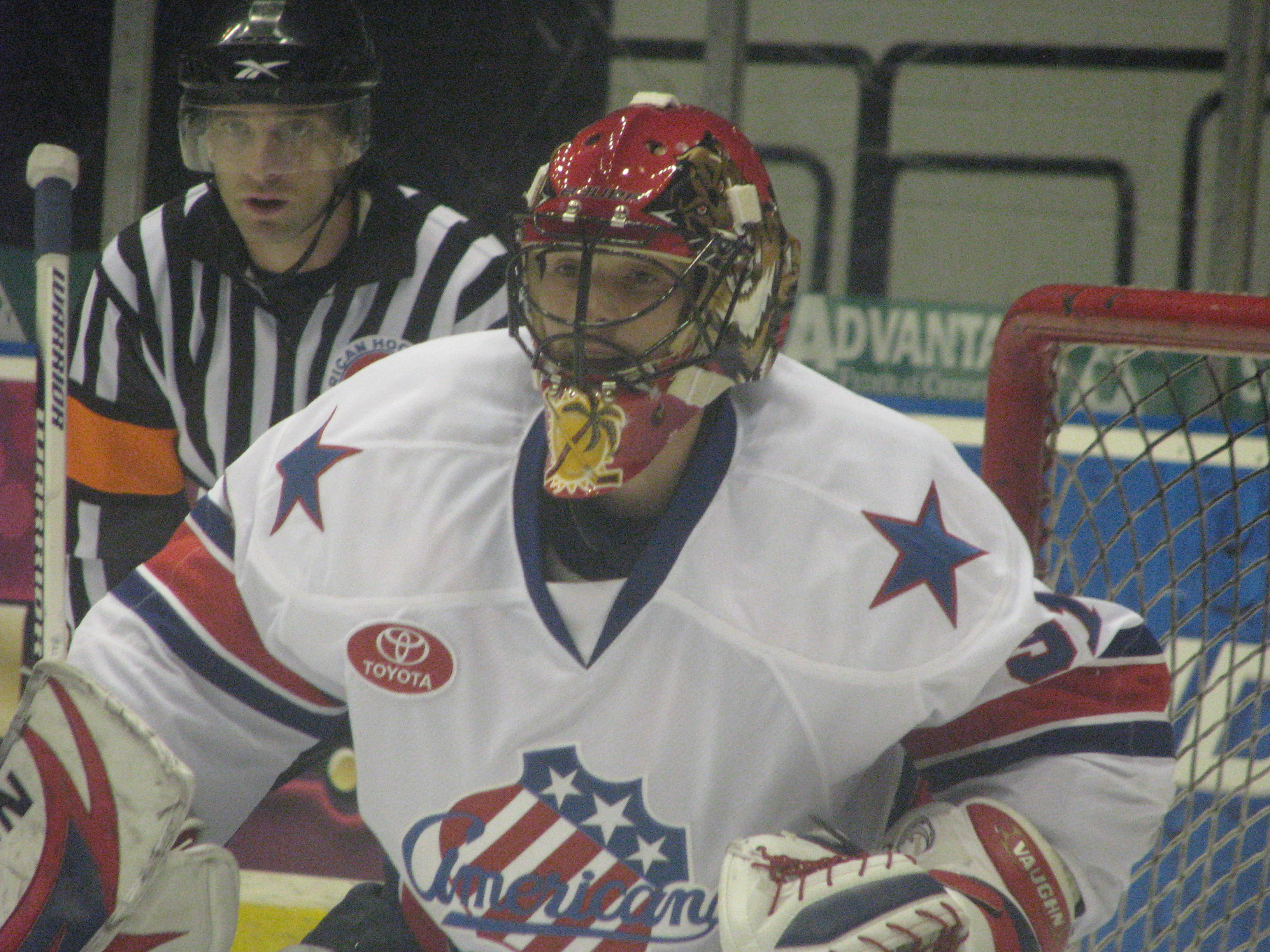 Alexander Salák, Czech goaltender of ther Amerks